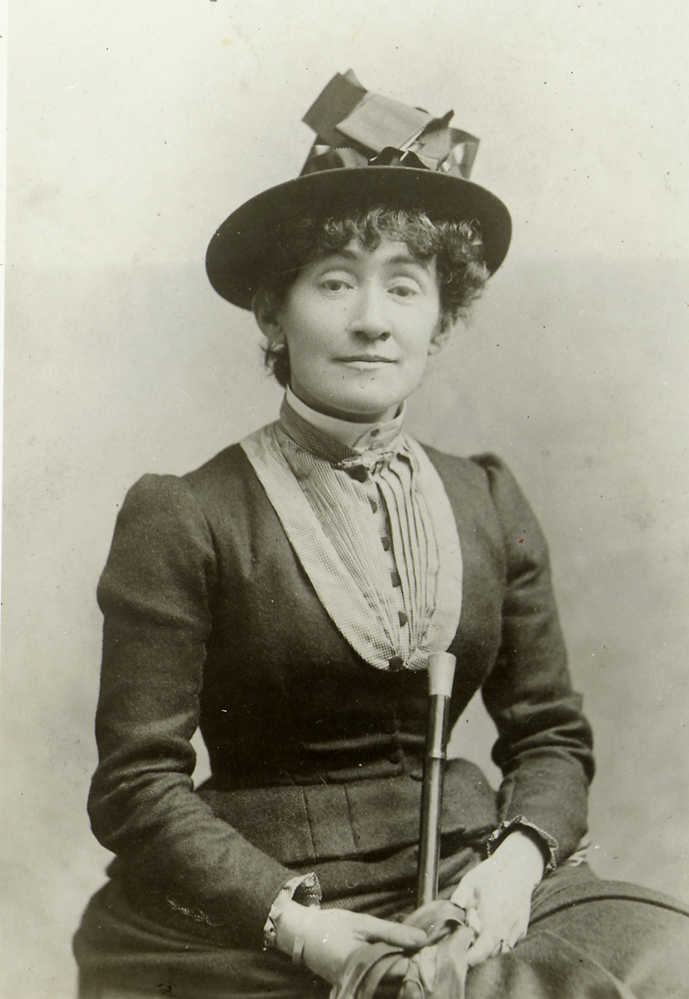 Sculptor, Marble statue of John P.G. Muhlenberg of Pennsylvania for the National Statuary Hall Collection.